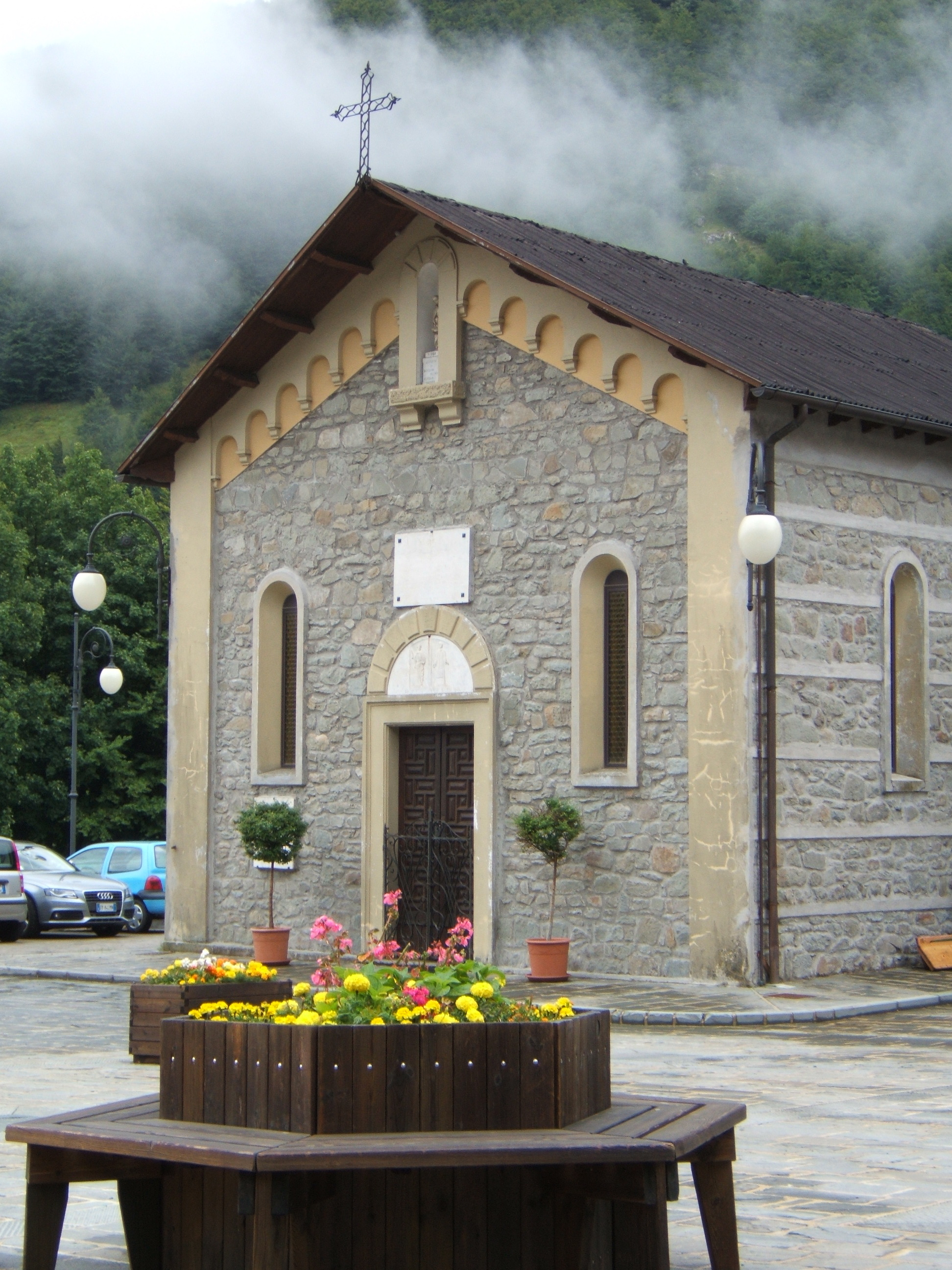 Sant'Anna church in Ospitaletto, Ligonchio (RE) Italy